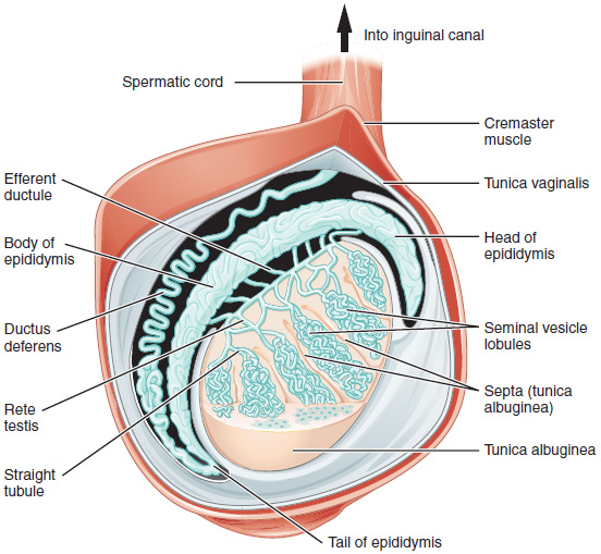 Illustration from Anatomy & Physiology, Connexions Web site. Jun 19, 2013.